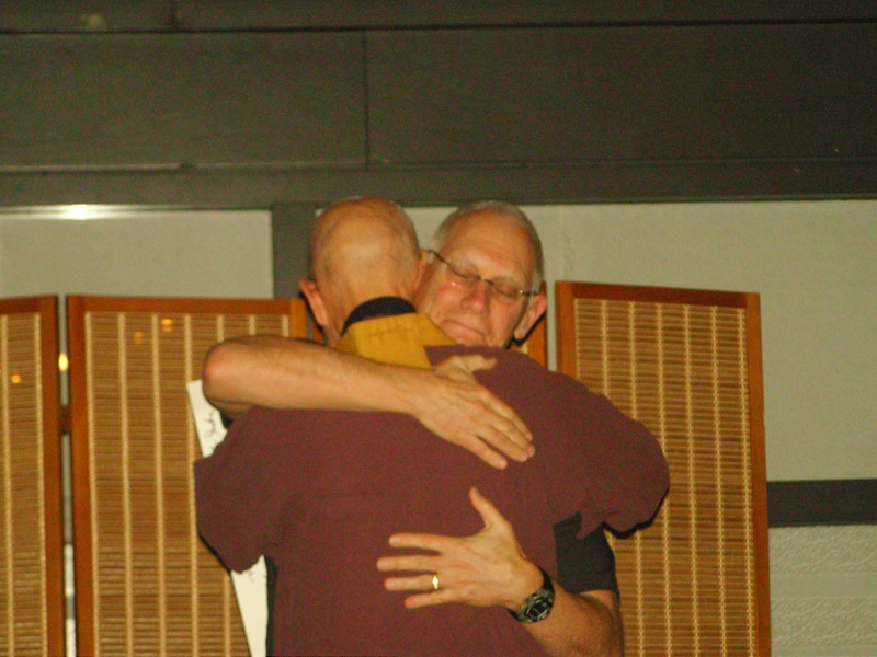 Genpo Roshi has just given Musai Sensei Inka (the final seal of approval) and he is now Musai Roshi, a Zen Master